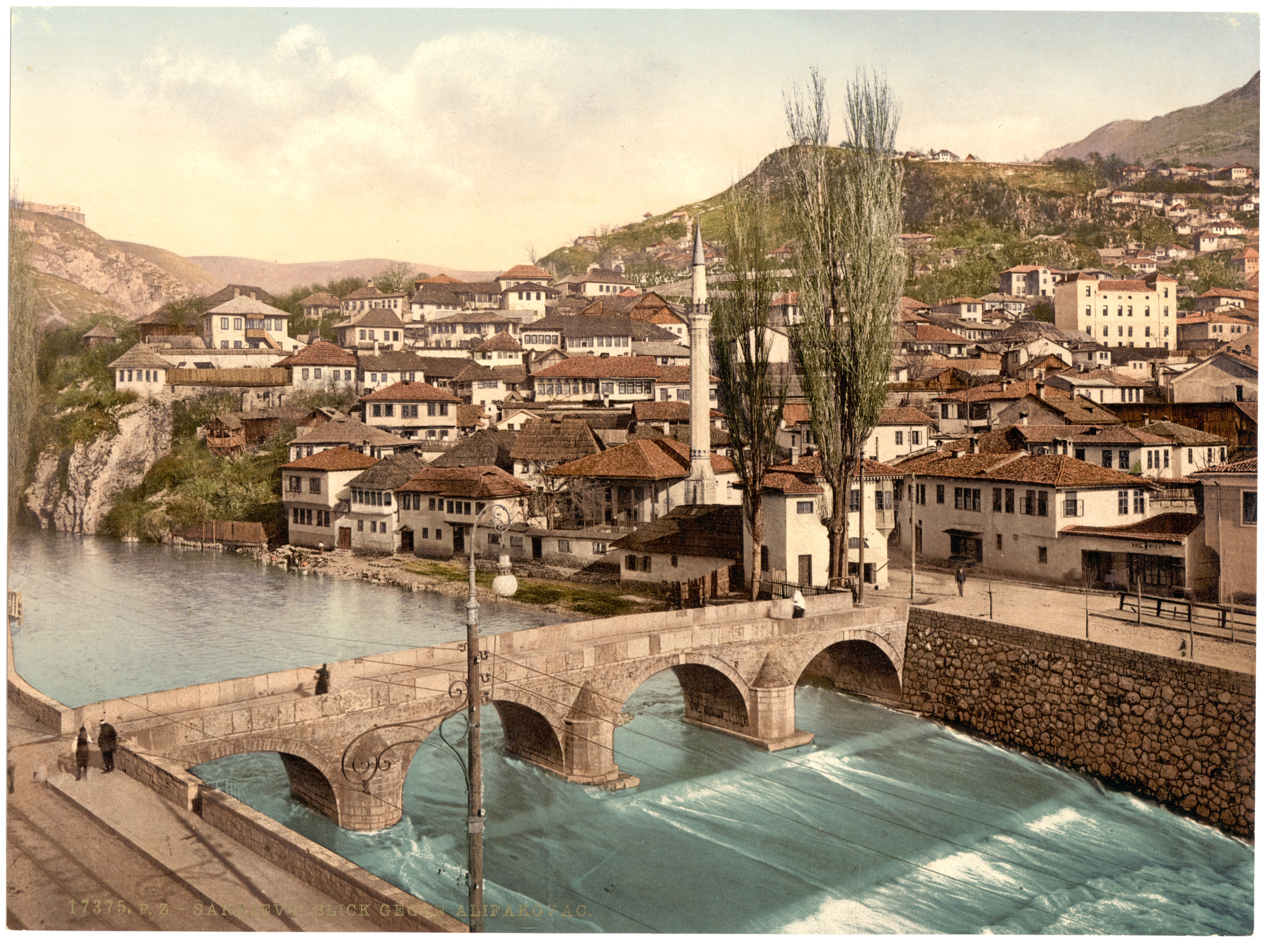 Forms part of: Views of the Austro-Hungarian Empire in the Photochrom print collection.; Title from the Detroit Publishing Co., Catalogue J-foreign section, Detroit, Mich. : Detroit Publishing Company, 1905.; Print no. "17375".